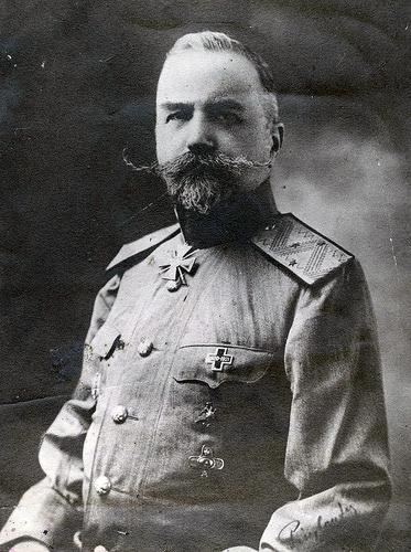 Evgenij Karlovich Miller, General of the Imperial Russian Army an White Army, emigree in Paris, kidnapped 1937 to Moscow and killed by NKVD